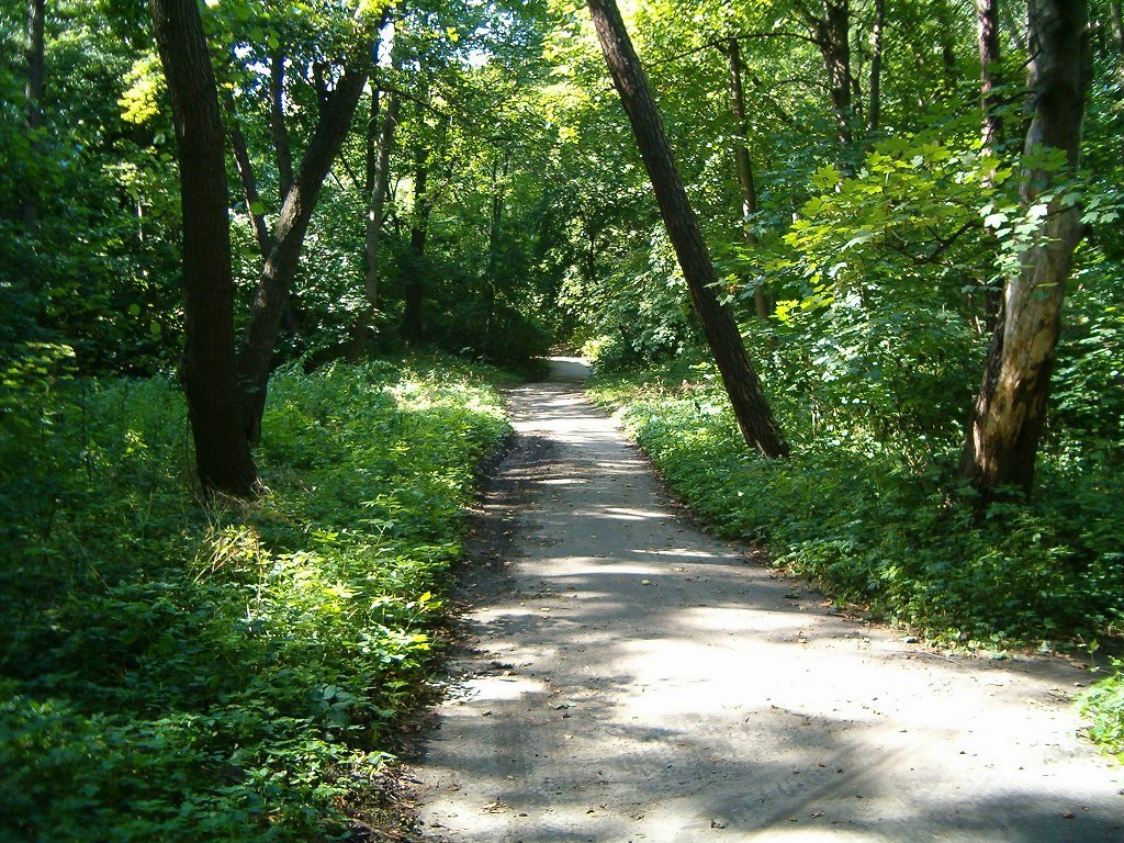 Park area in Brzeźno, Gdansk, Poland.